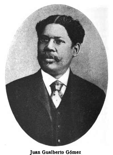 from "Juan Gualberto Gómez" entry in the 1919 collection Cubans of to-day